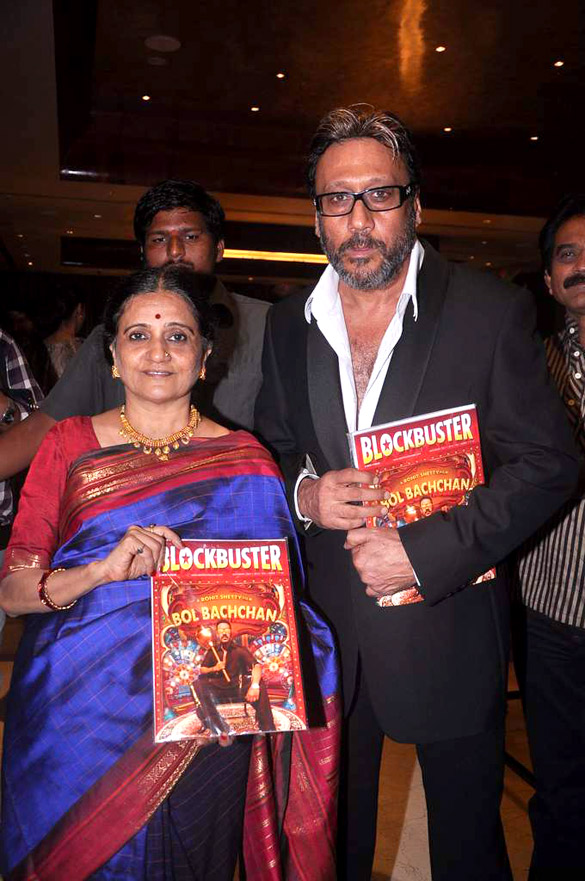 Jackie Shroff at the launch of T P Aggarwal's trade magazine 'Blockbuster'